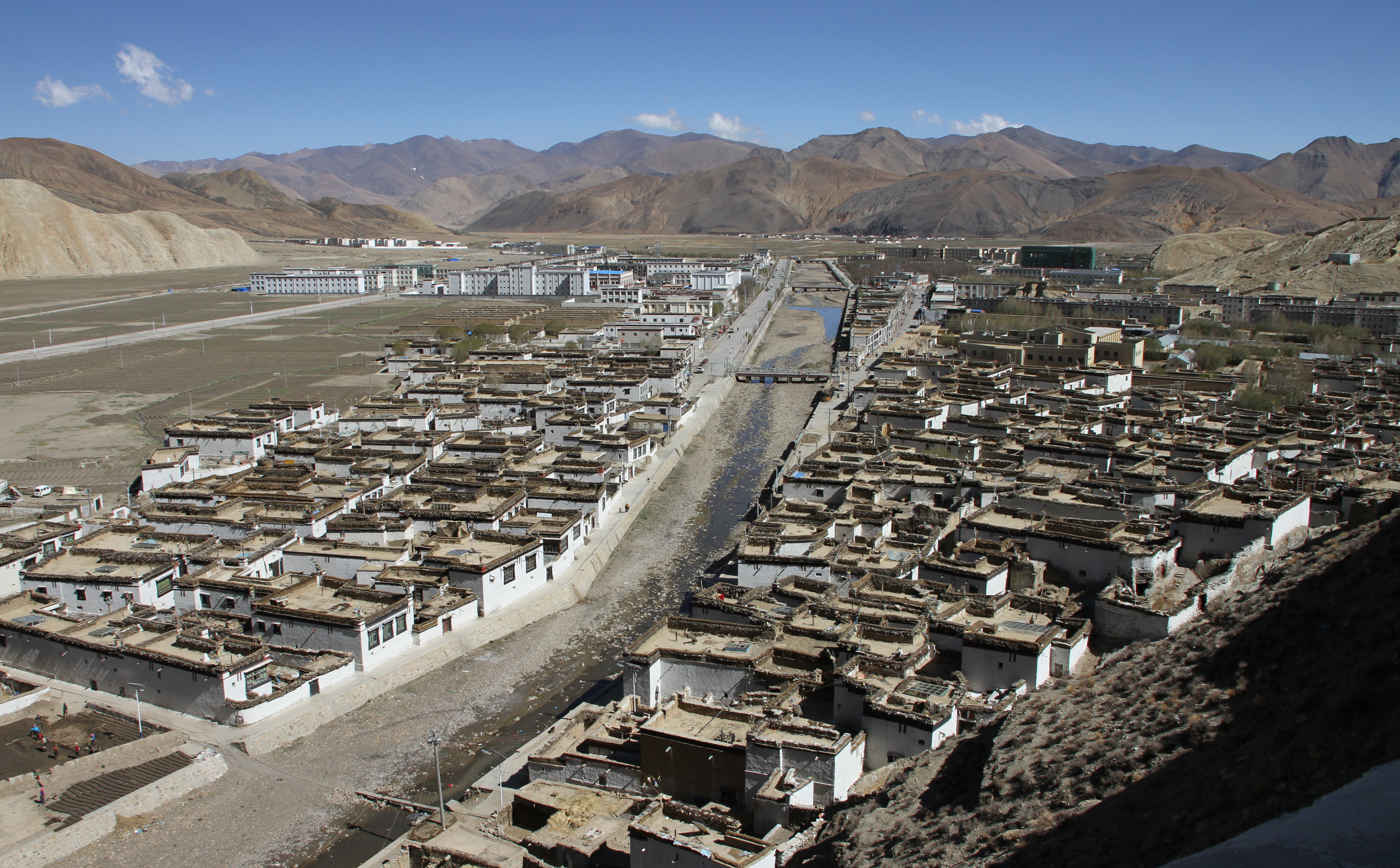 Shelkar in Tingri county in Xigazê City in Tibet